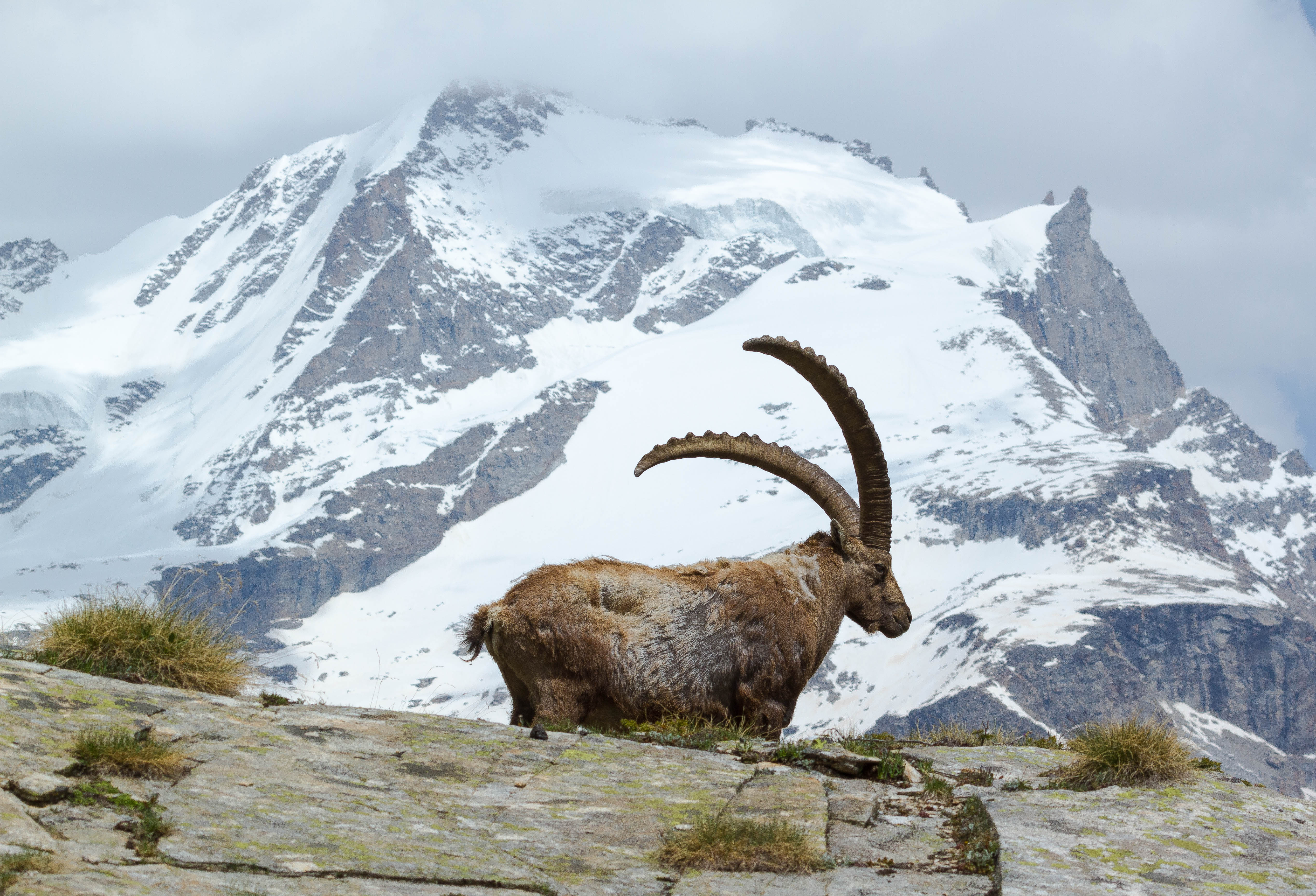 Taken from trail # 9 which climbs from the Pian di Nivolet to the Pian Borgnoz